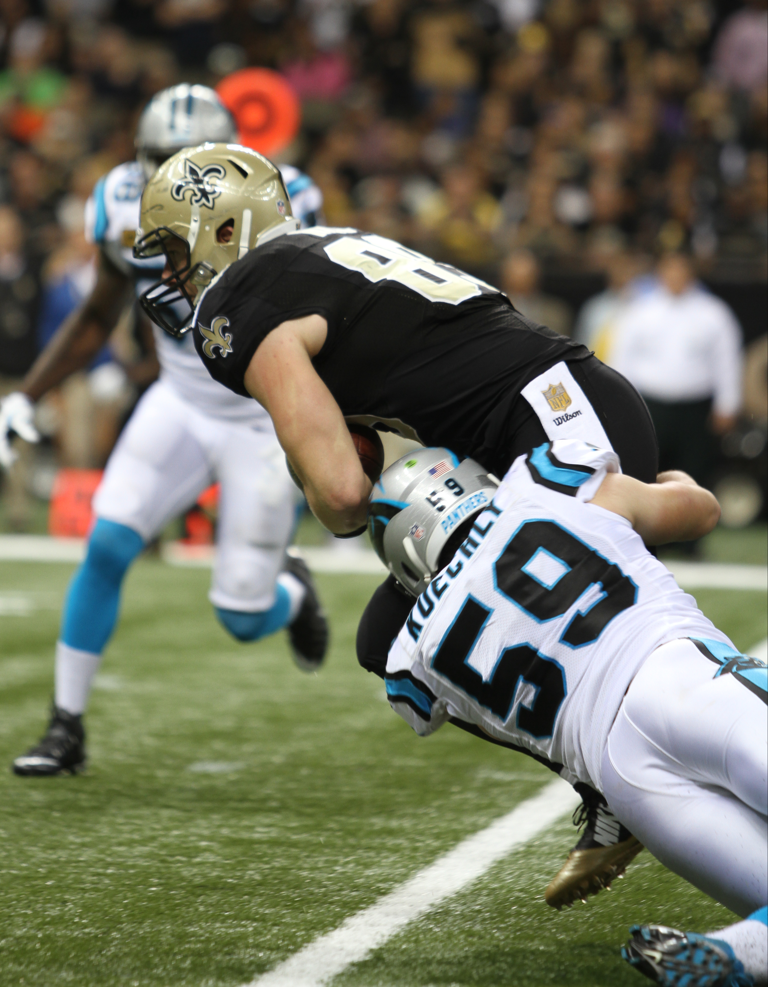 New Orleans Saints vs Carolina Panthers, December 6, 2015, Tammy Anthony Baker, Photographer